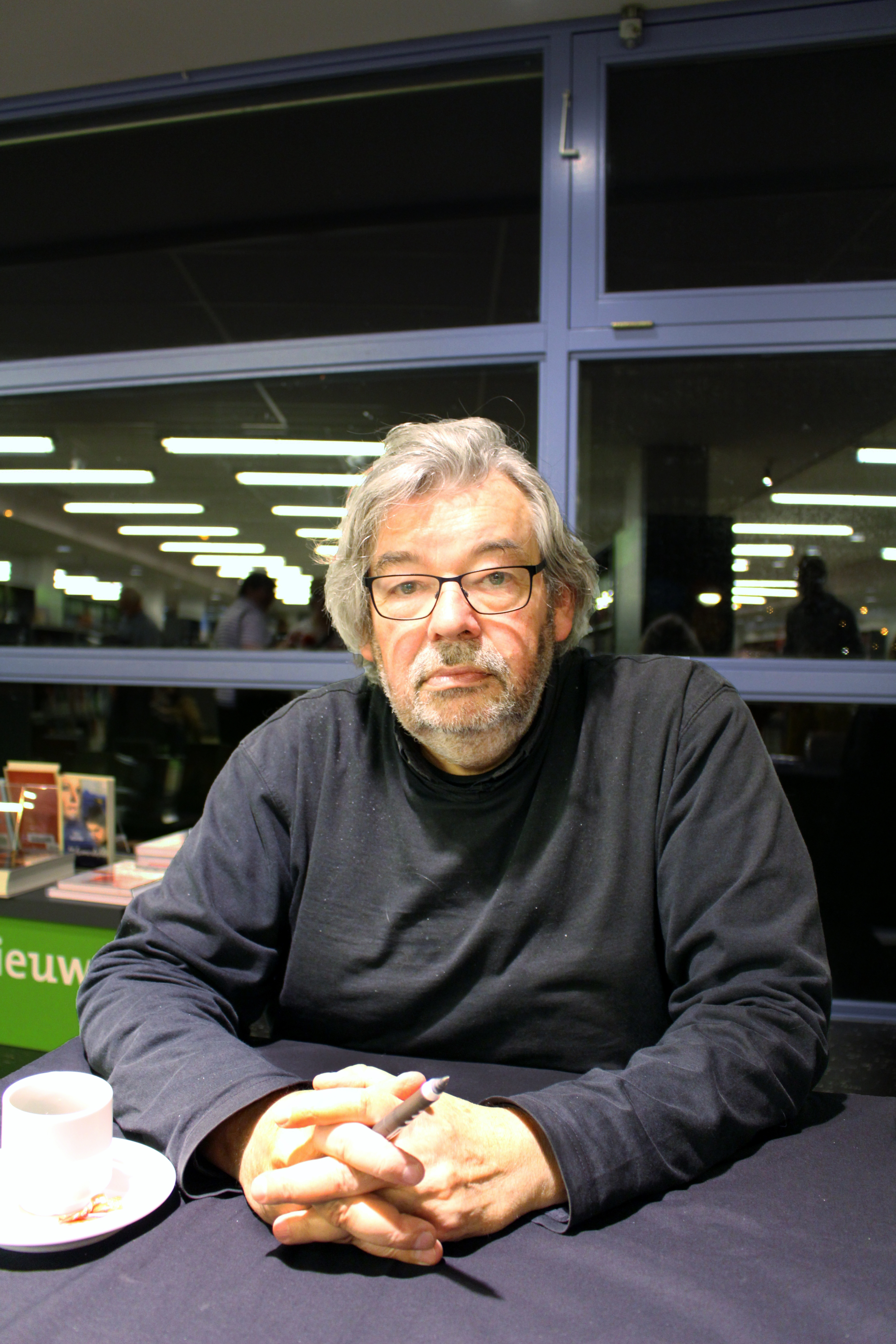 Maarten van Rossem, former history professor at the Universiteit Utrecht